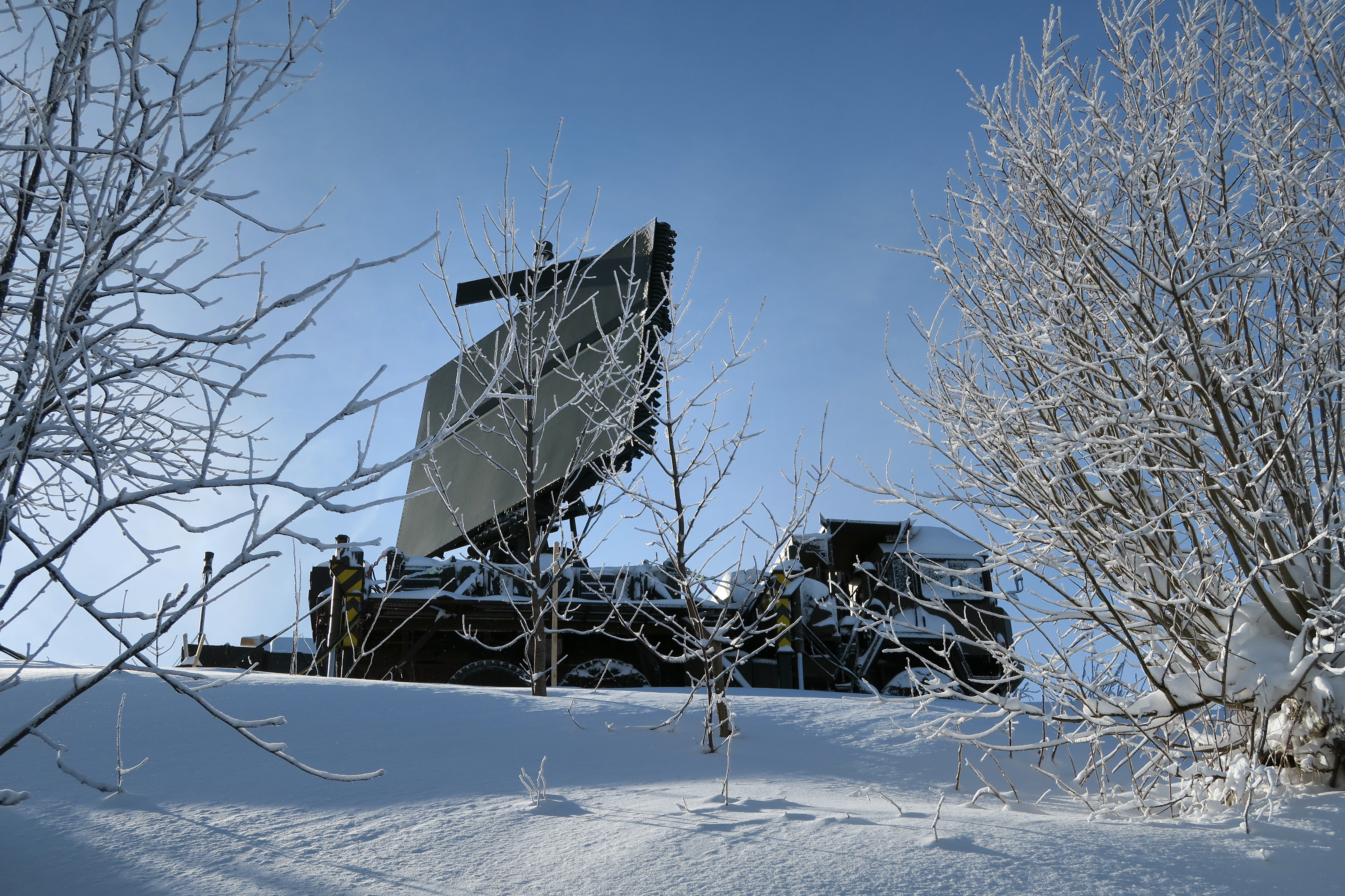 The core of the base on the mountain. A tactical flight radar TAFLIR mounted on a IVECO truck. The antenna rotates, but it does not radiate yet. The regular operation will commence next day on Monday. Above Pfäfers, Switzerland, Jan 18, 2015. (4/9)